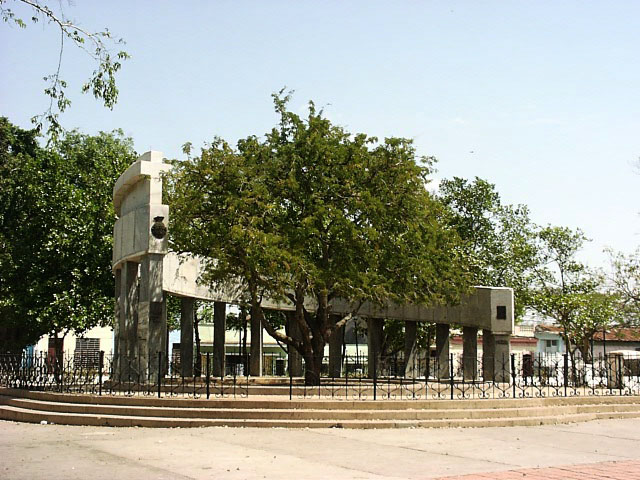 mine